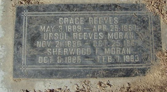 The gravestone of Grace Reeves (1889-1957), Ursul Reeves Moran (1890-1967), and Sherwood F. Moran (1885-1983).